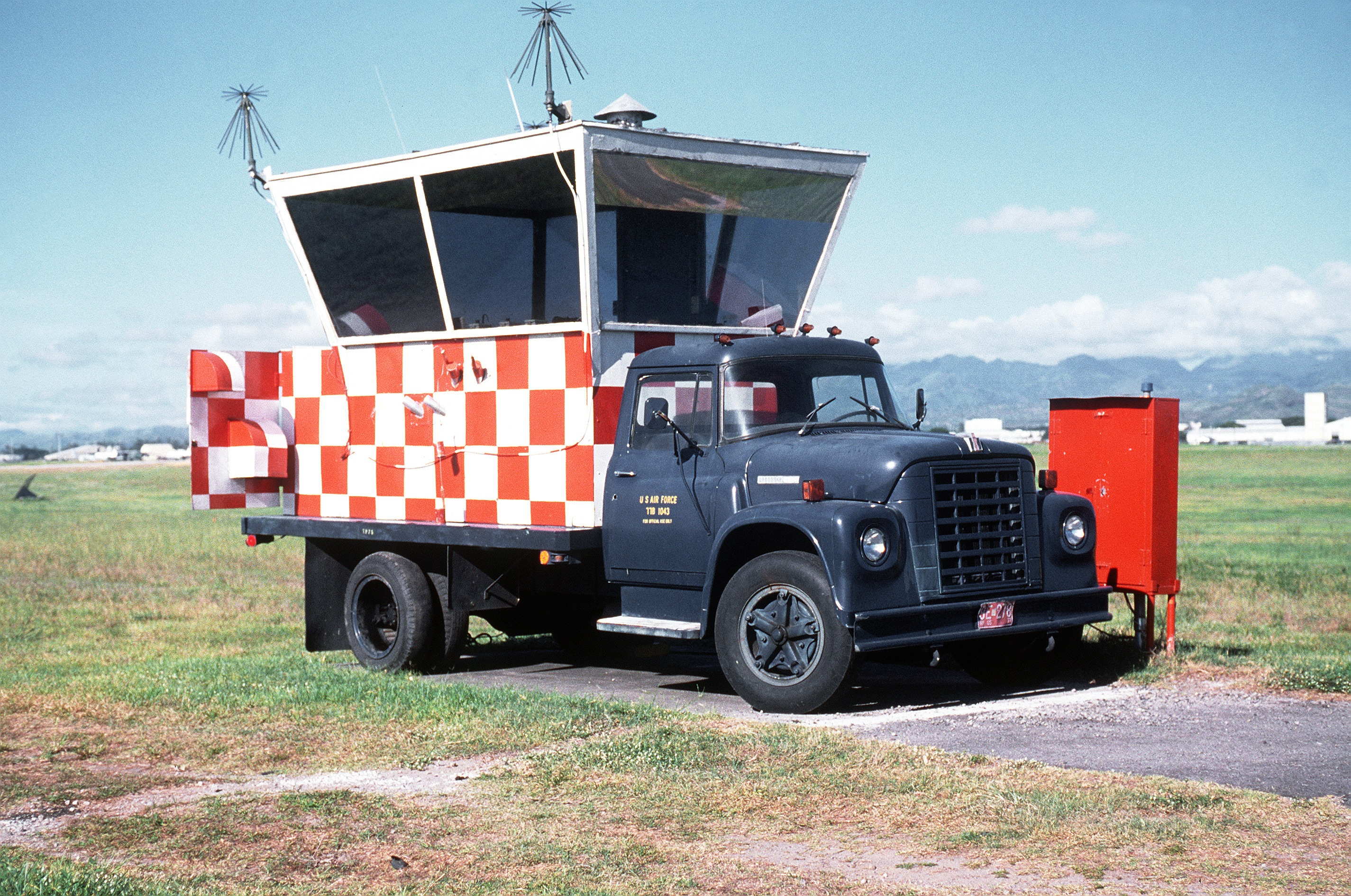 A mobile unit (1977 International Harvester Loadstar) serves as an observation post for a ground crew member who monitors aircraft preparing to depart from the runway during exercise COPE THUNDER 89-5.